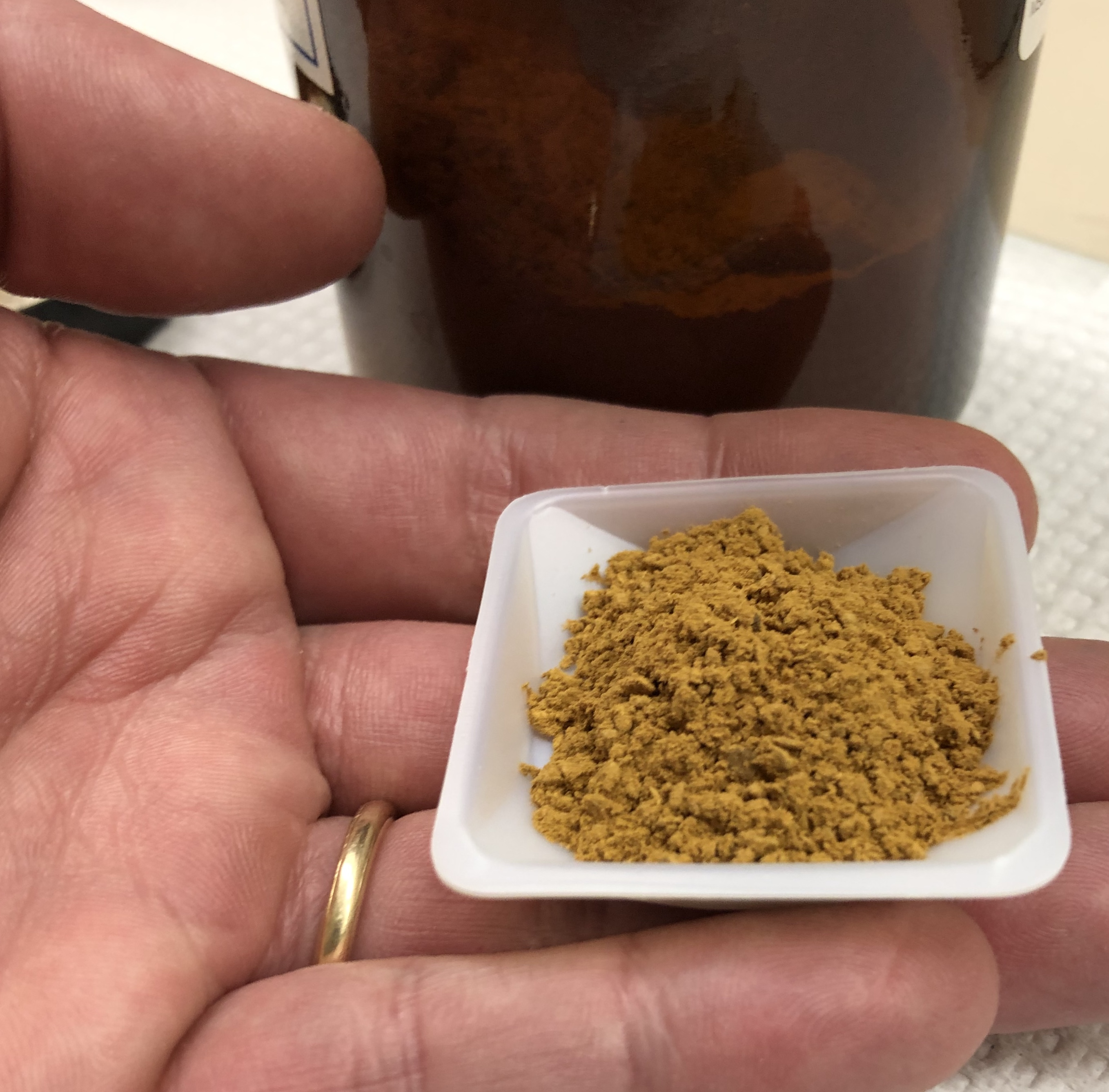 Haematoxylin powder from a laboratory supplier for use as a histologic stain.